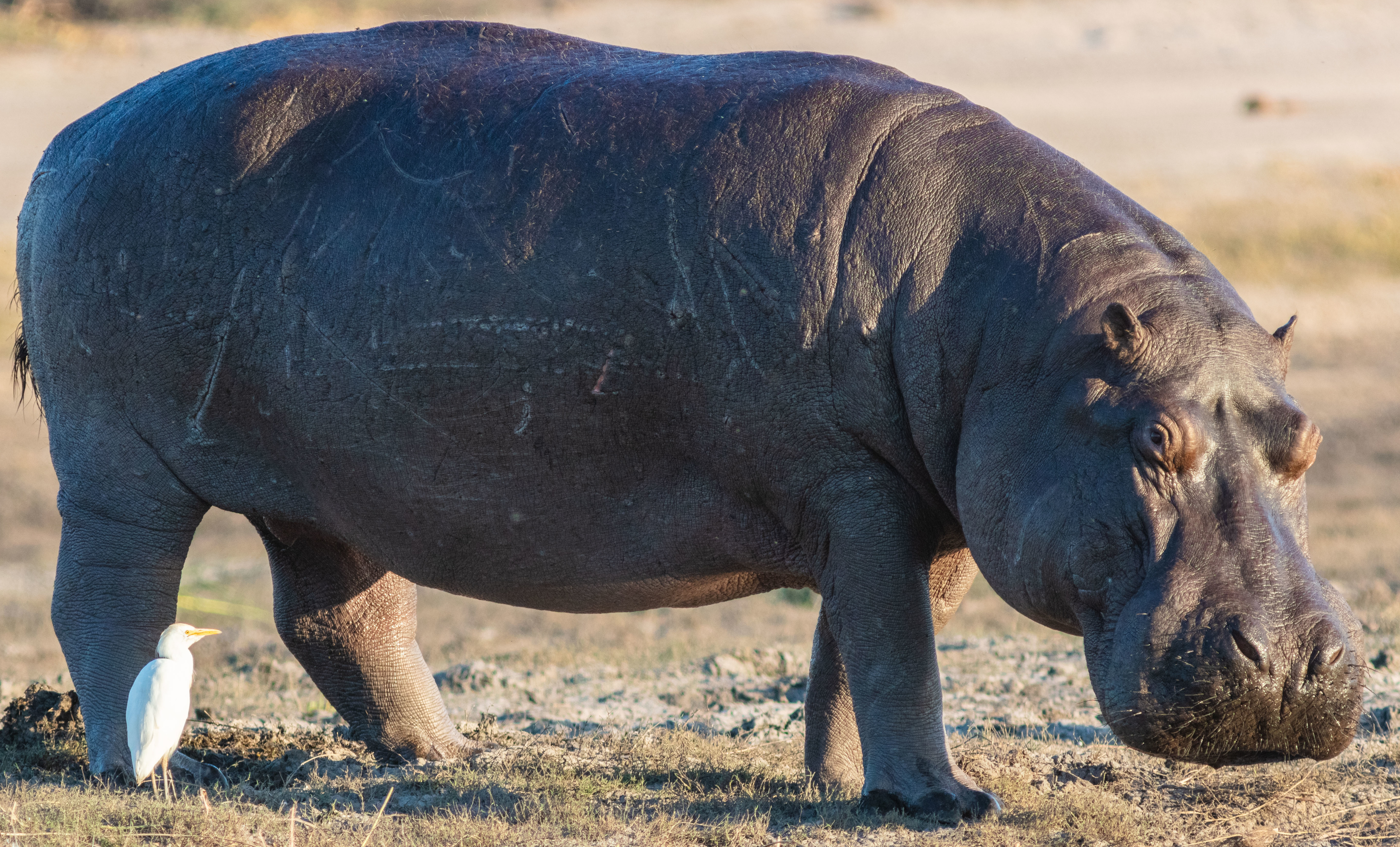 Hippo (Hippopotamus amphibius), Chobe National Park, Botswana